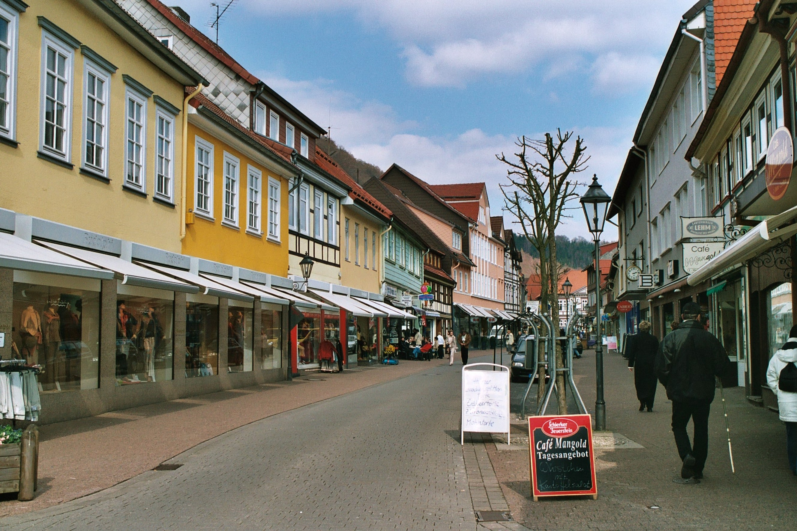 Bad Lauterberg im Harz, the Hauptstraße, northwestern part